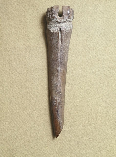 Bonbeblade design for making holes in the ice for fishing. Found from Kirkkonummi, Finland. The item is dated to 6500 BCE.